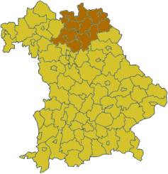 Map of Bavaria highlighting the Oberfranken region. Based on the templates at Wikipedia:WikiProject German districts/Maptemplates